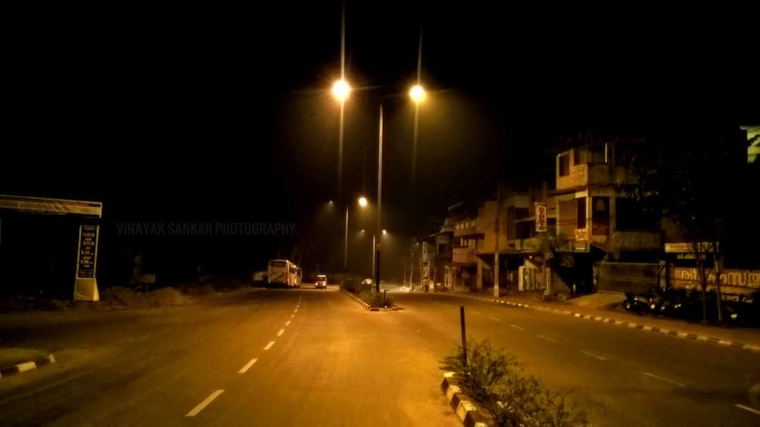 SH 2 near Vazhayila Peroorkada